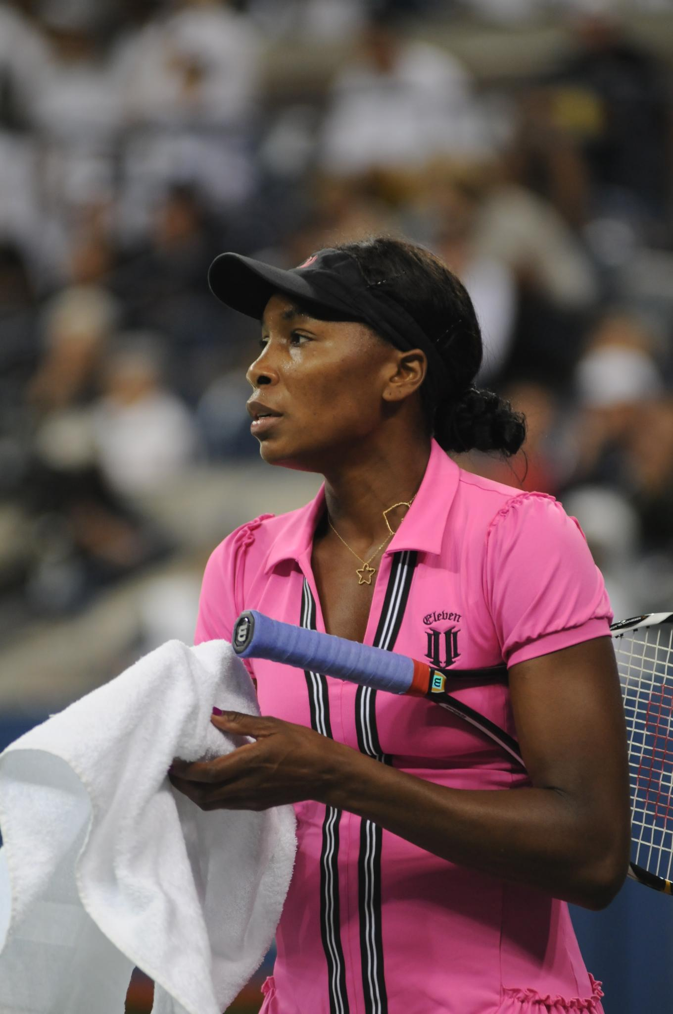 Venus Williams at the 2009 US Open